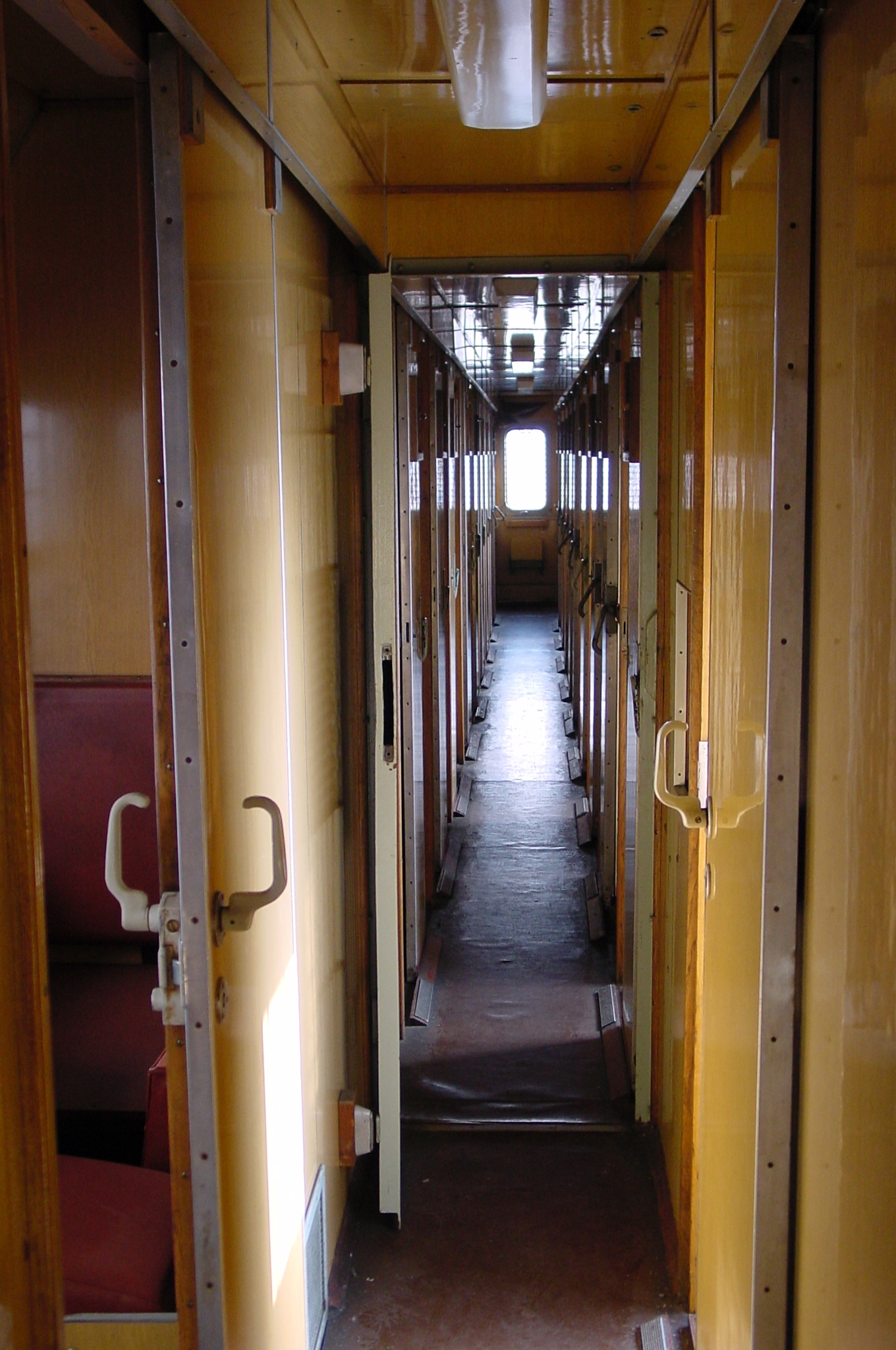 View inside the prisoner transport wagon.